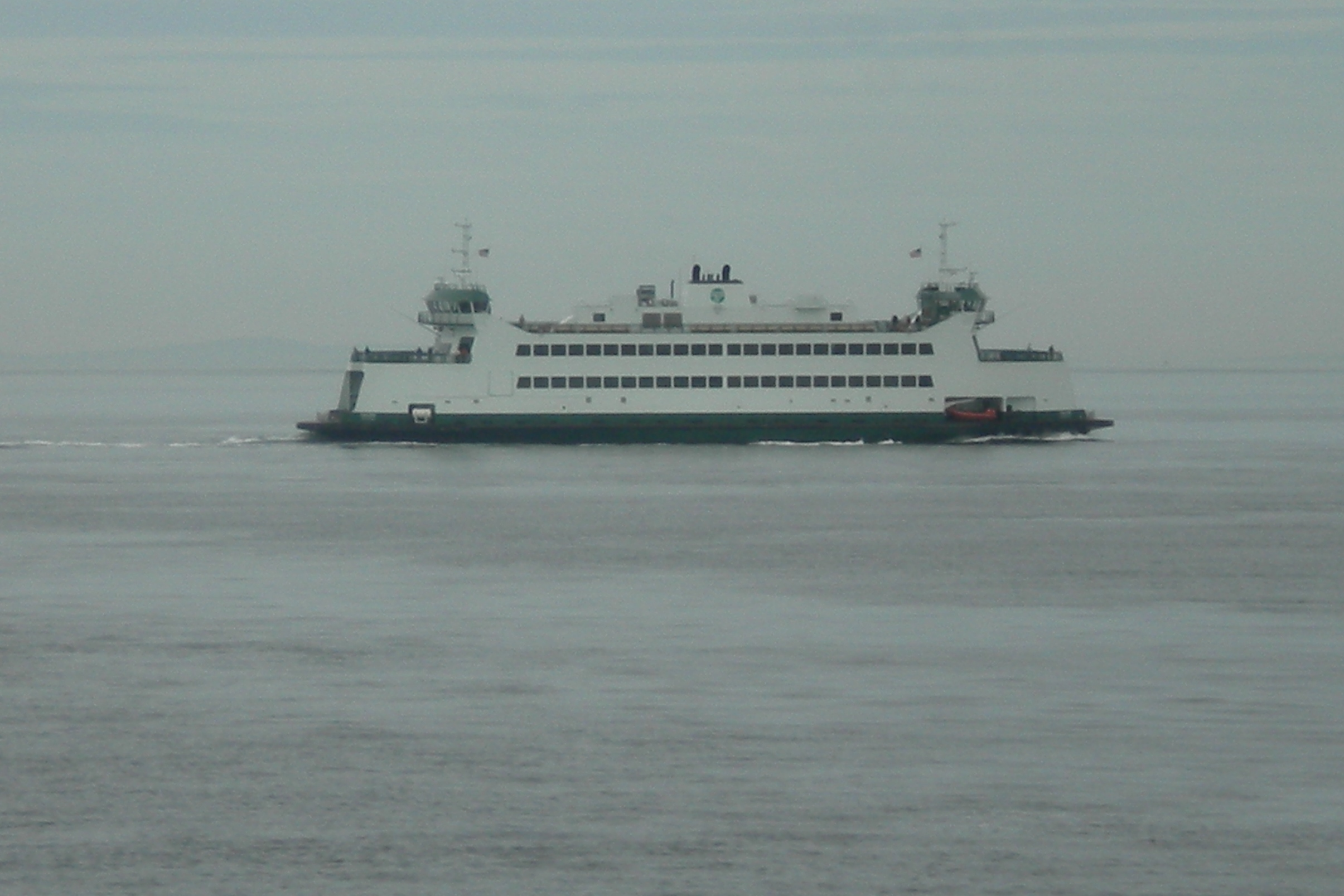 The MV Salish in the Admiralty inlet, making its Port Townsend-Keystone run. Photo taken from the MV Chetzemoka.